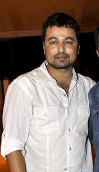 Marathi film actor Subodh Bhave.